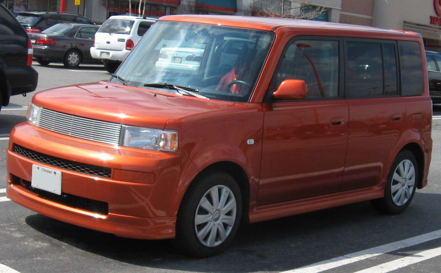 2004 Scion xB photographed in USA.